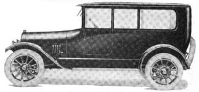 A photo of the Paterson 6-45 Sedan from page 39 of the above magazine. Photo is from an article entitled, "What Dealer Will Find at the New York Show"